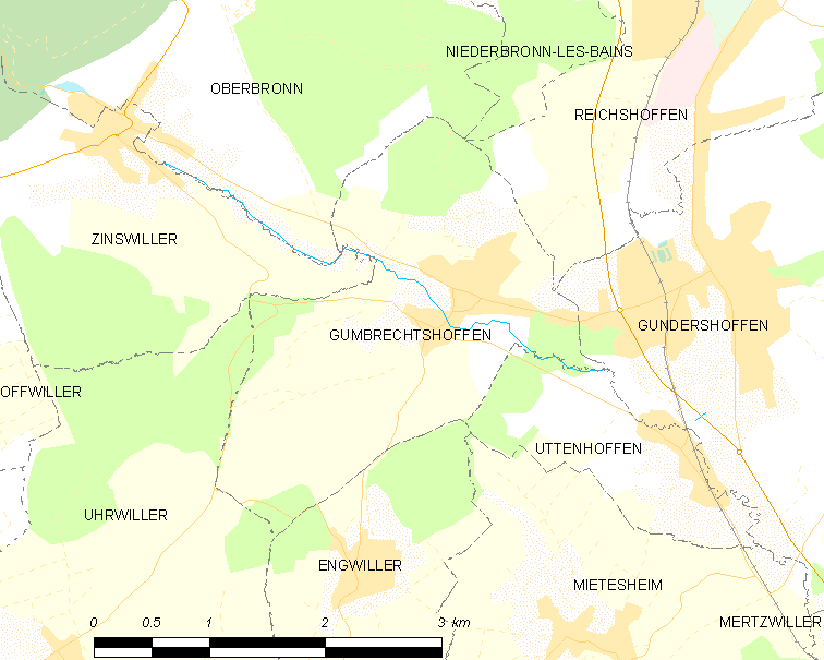 Map of French municipality